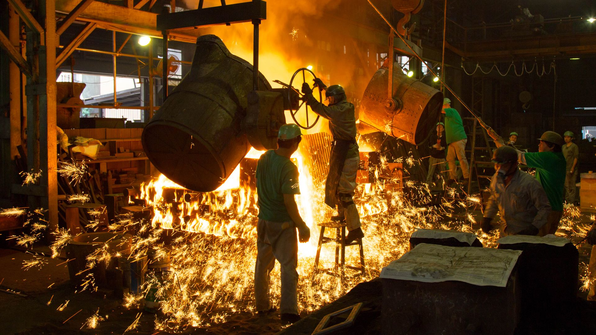 TOMIWA CHUZO CO.,LTD.[1], Kawaguchi, Saitama, Japan